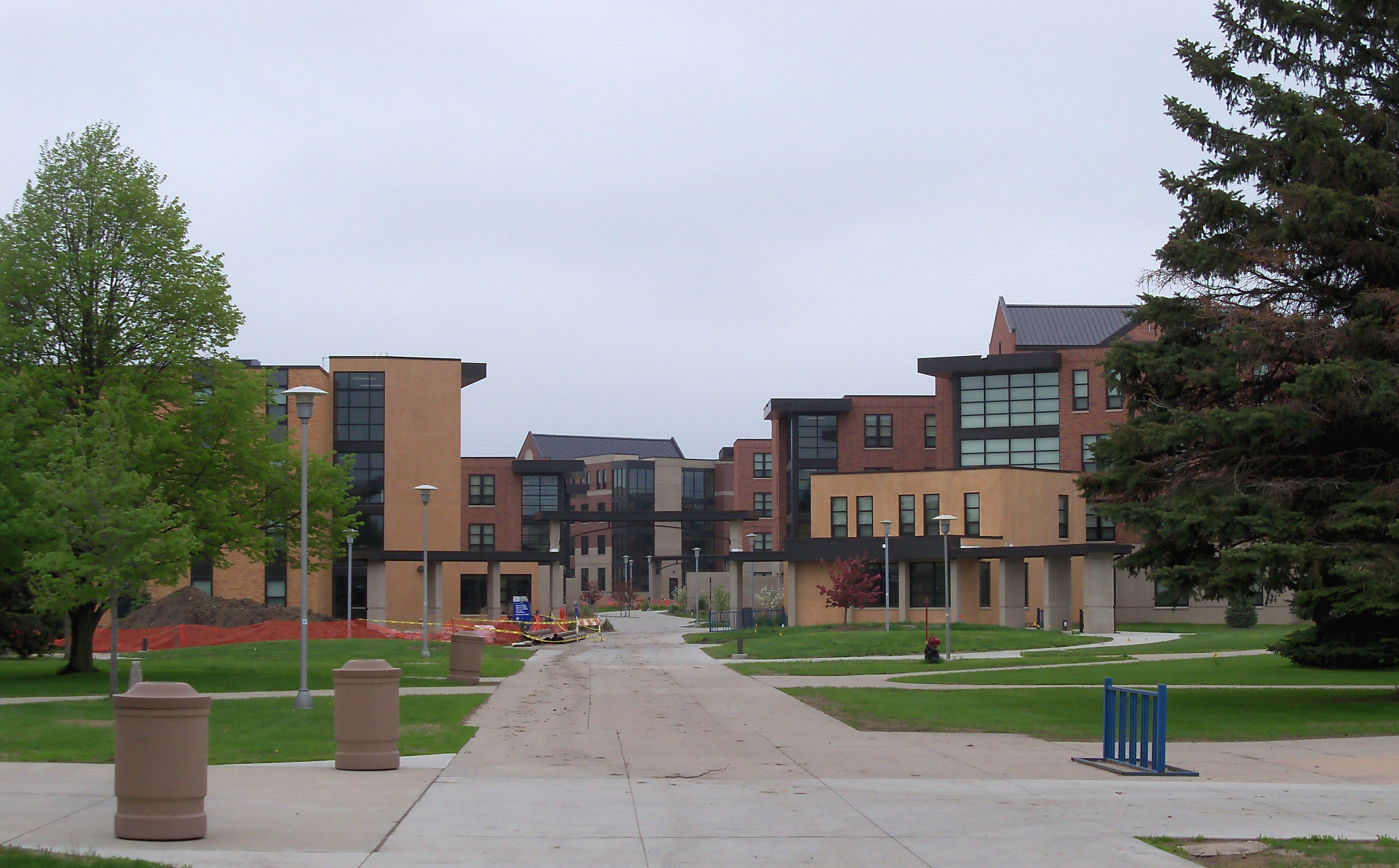 Residence halls on the campus of South Dakota State University in Brookings, South Dakota, USA.